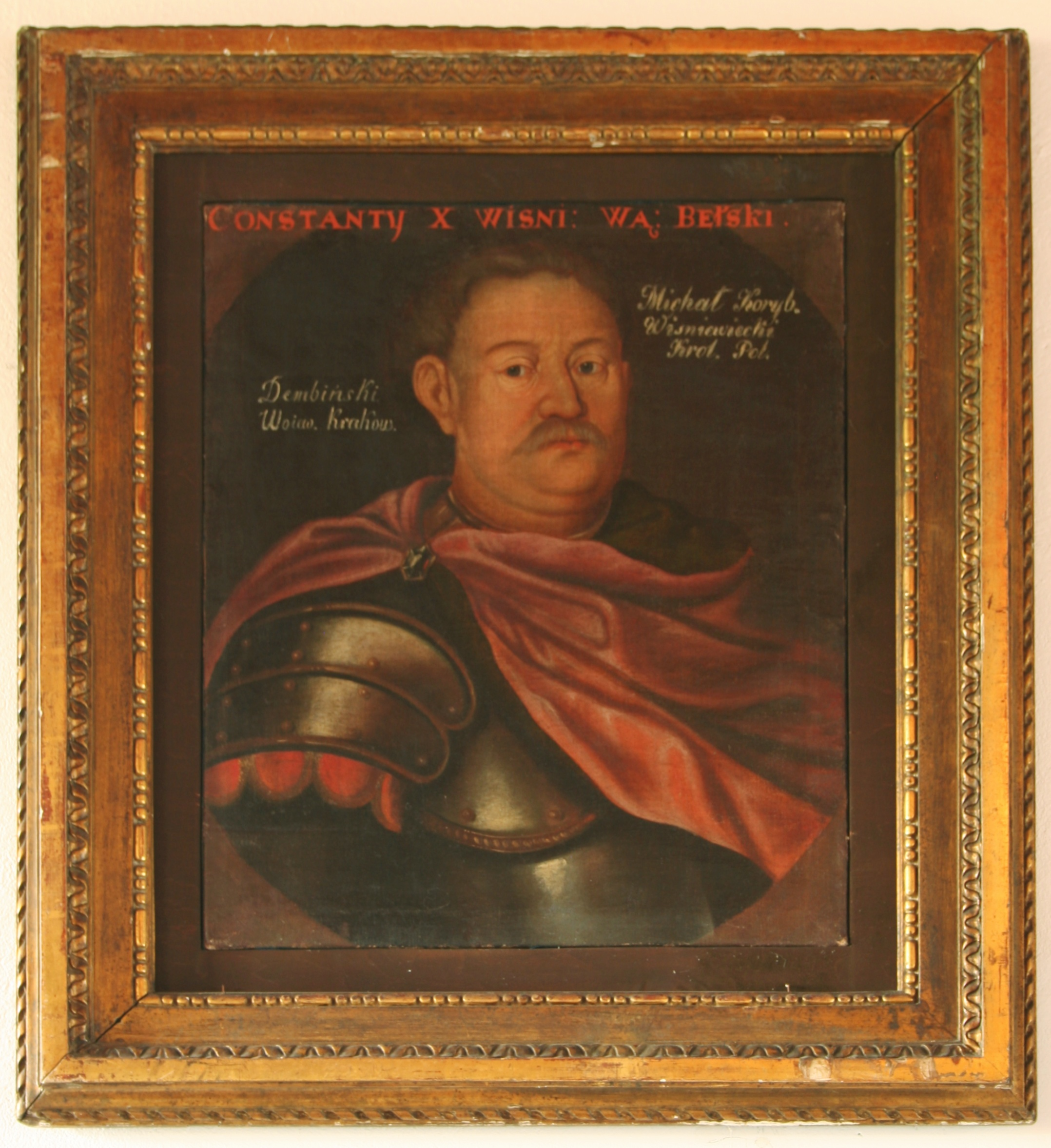 Konstanty Krzysztof Wiśniowiecki in Historic Museum in Sanok, Poland